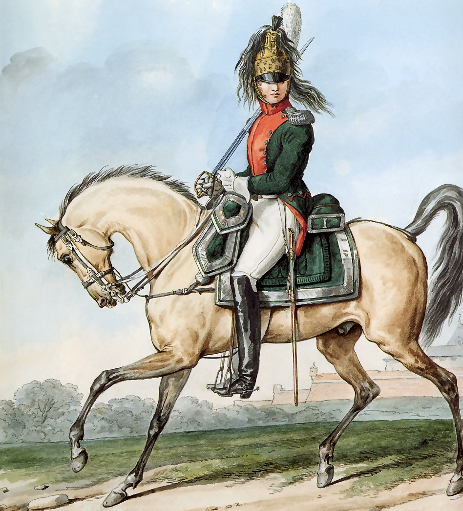 1st Regiment of Dragoons - Colonel. Part of a series chronicling the uniforms of Napoleon's Grande Armée.